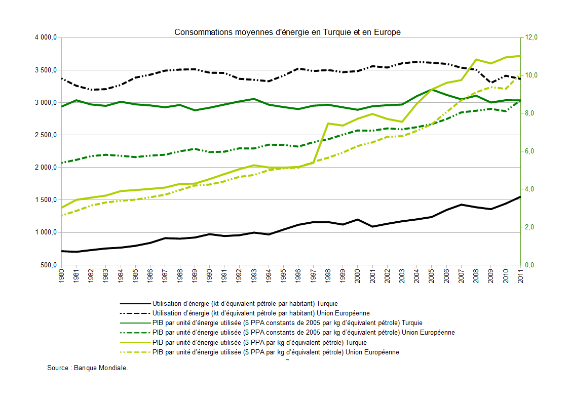 Consommations moyennes d'énergie en Turquie et en Europe - Source: Banque Mondiale